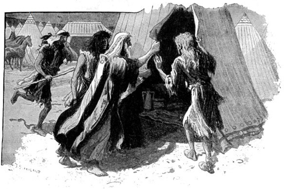 These lepers went into one tent, as in 2 Kings 7:8, illustration by Charles Joseph Staniland (British, 1838-1916)